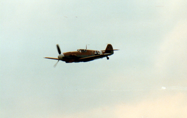 Photographed at the Spitfire 60th Anniversary Airshow, Duxford, 1996. Vintage, Veteran and Preserved Aircraft Scanned print. Photo ref; 1996/Spitfire 60th-Duxford/003